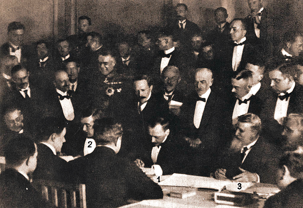 Signing of the Treaty of Brest-Litovsk (February 9, 1918) by 1. Count Ottokar Czernin, 2. Richard von Kühlmann and 3. Vasil Radoslavov